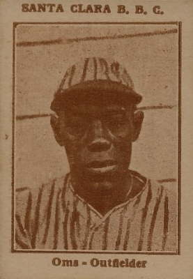 Baseball card of Alejandro Oms